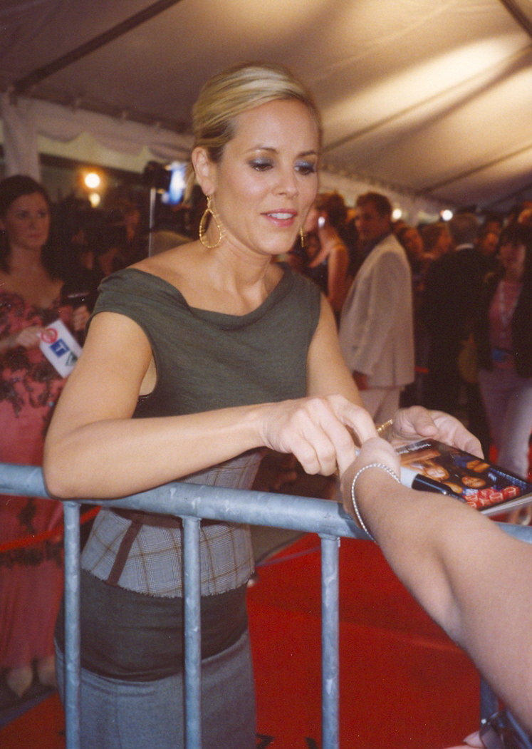 Actress Maria Bello signing a autograph on the cover of a copy of the DVD version of the filme Coyote Ugly during the Toronto International Film Festival